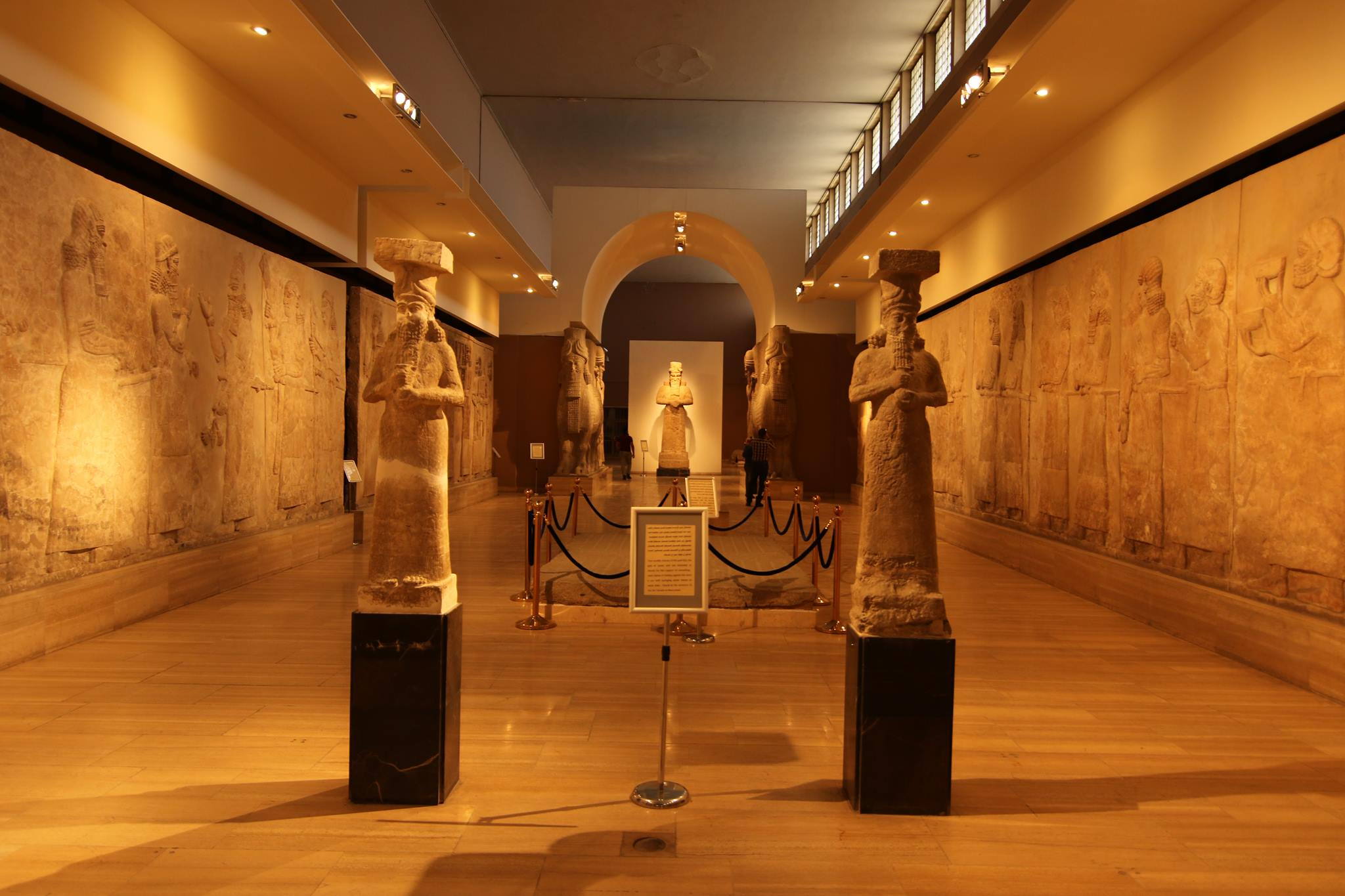 المتحف العراقي،[3] هو من أقدم وأهم وأكبر المتاحف في العراق، يقع في بغداد، عاصمة العراق، ويأتي في المرتبة الثانية بعد المتحف المصري، من حيث التأسيس،[4] يعود تاريخ إنشائه إلى عام 1923-1924.